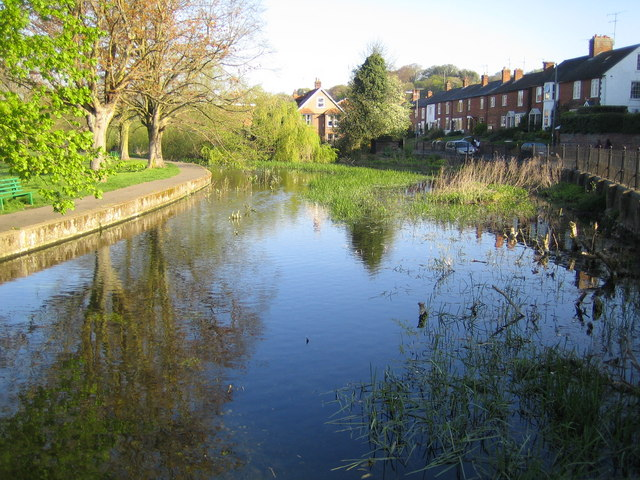 River Chess at Waterside, Chesham. Thirteen months on from 131737 and the River Chess now has at least half a metre of water in it. This is taken from the same footbridge but looking in the opposite direction and upstream.